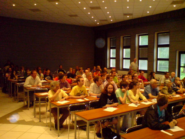 Opening of SES studing meeting